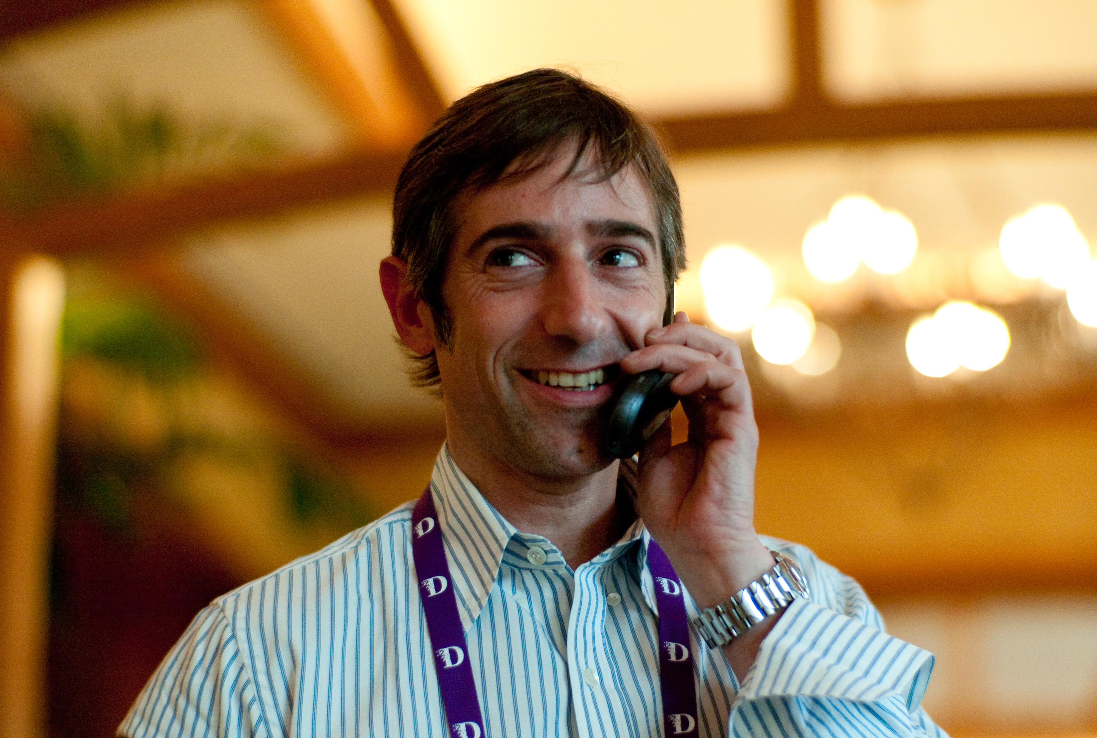 Mark Pincus